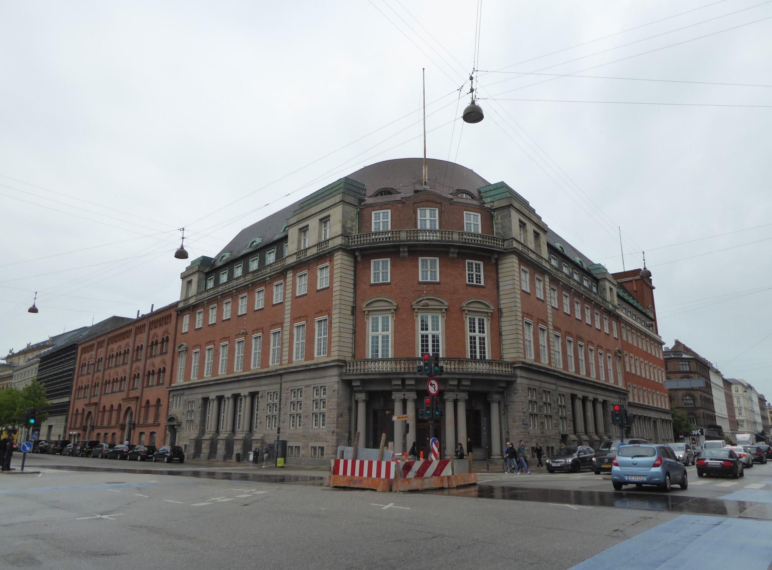 The former headquarters of the Danish insurance company Hafnia at the corner of Holmens Kanal and Holbergsgade in Indre By in Copenhagen.